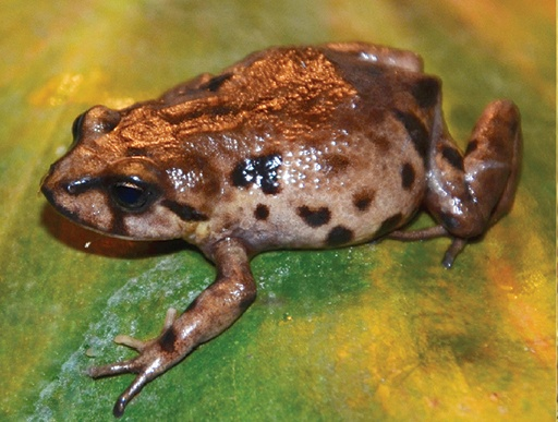 P. juninensis (C, D MUSM 33258, female, SVL 33.0 mm)